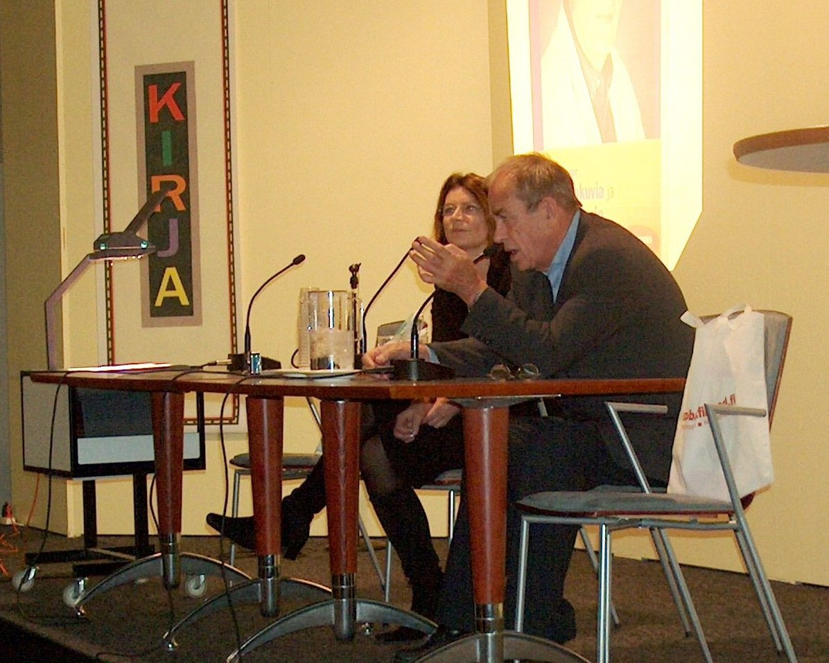 Jörn Donner, Finnish writer and film director, at the Helsinki Book Fair in 2004